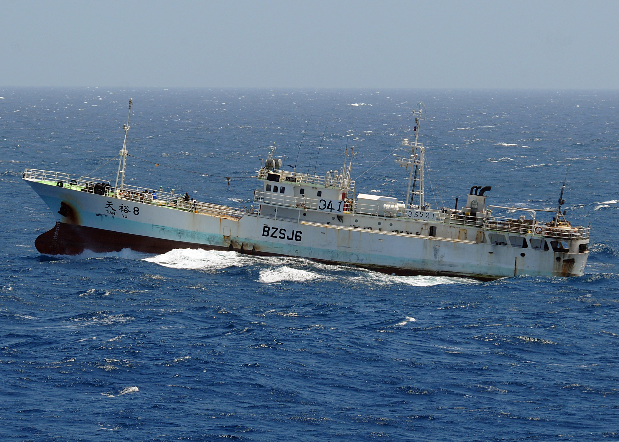 081117-N-1082Z-054 INDIAN OCEAN (Nov. 17, 2008) Somali pirates holding the crew of the Chinese fishing vessel FV Tian Yu 8, BZSJ6, pass through the waters of the Indian Ocean while under observation by a U.S Navy Ship (possibly USS Vella Gulf, CG 72) in the U.S. 5th Fleet area of responsibility. The chinese ship was attacked Nov. 16 in the U.S. 5th Fleet area of responsibility and forced to proceed to an anchorage off the Somali coast. IMO Number: 9176280 MMSI Number: 412470530 Callsign: BXYQ Length: 72 m Beam: 12 m